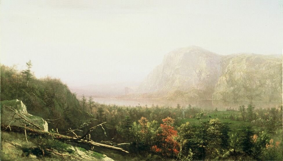 Storm King on the Hudson, painted by Homer Dodge Martin in 1862, depicts Storm King Mountain near Cornwall-on-Hudson, New York.